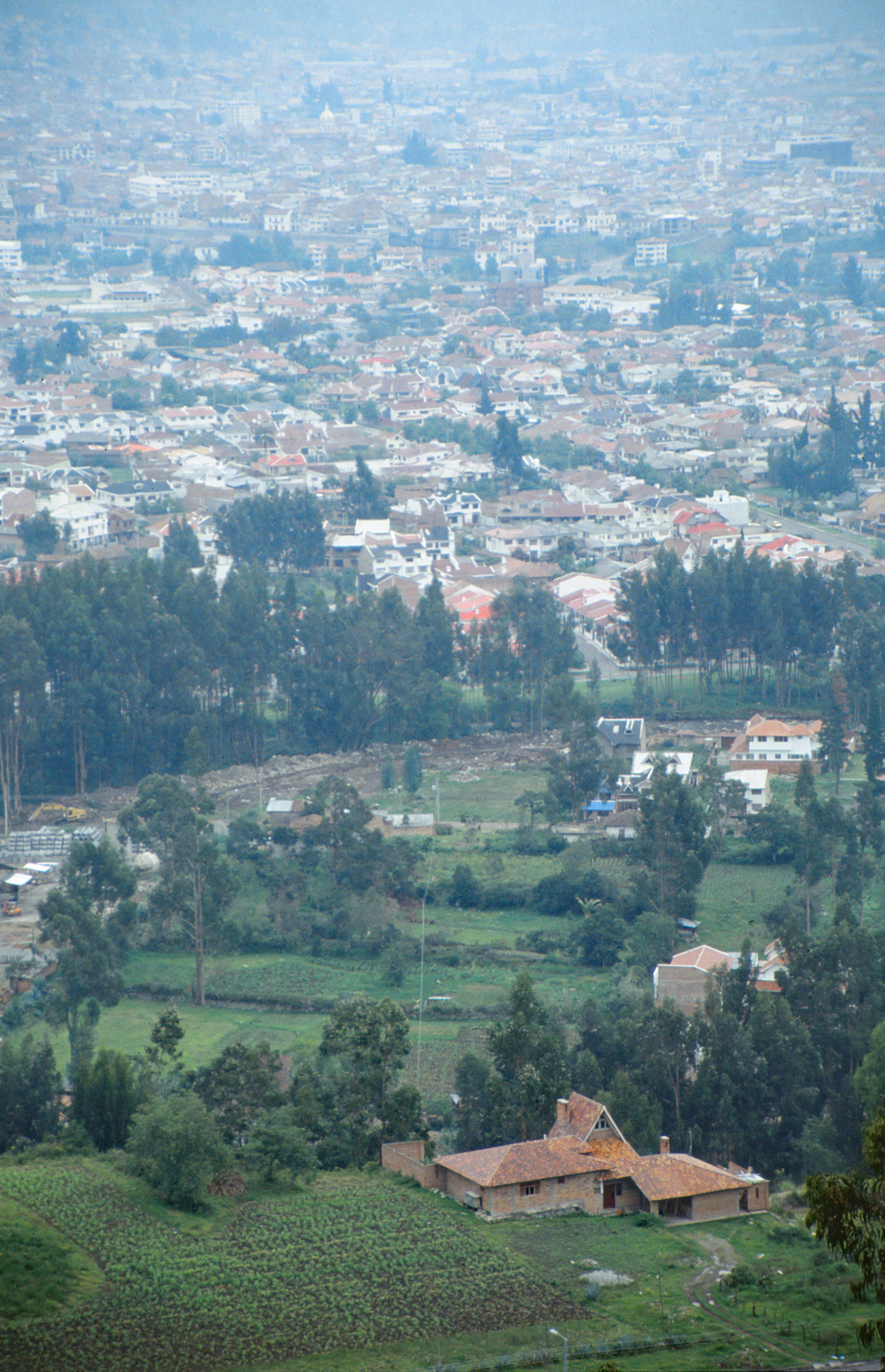 Cuenca, Ecuador, 1994.